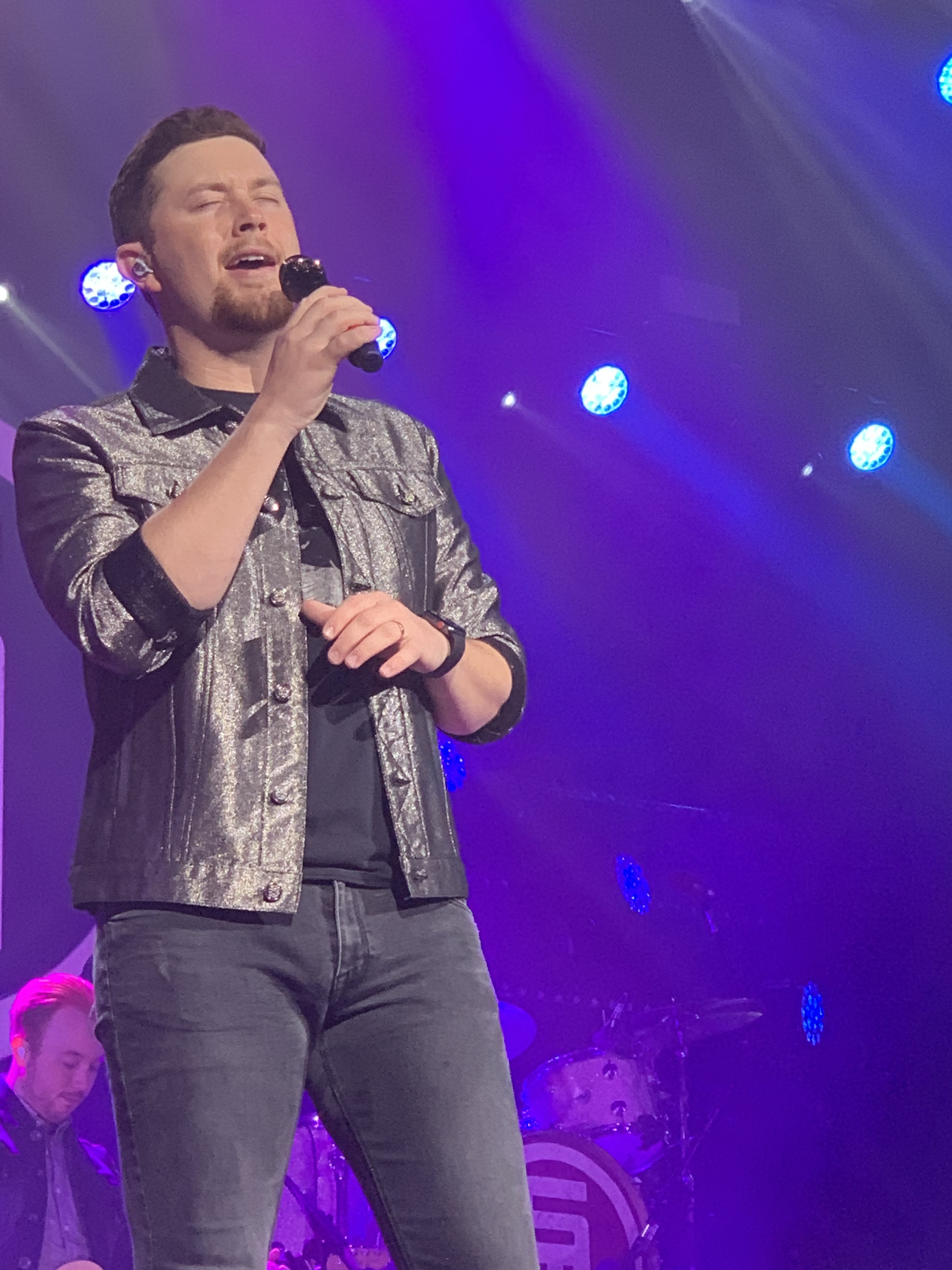 Scotty McCreery performing at the Ryman Auditorium in Nashville, Tennessee, on March 11, 2020.